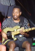 Jamareo Artis performing in Bogotá with the Hooligans.